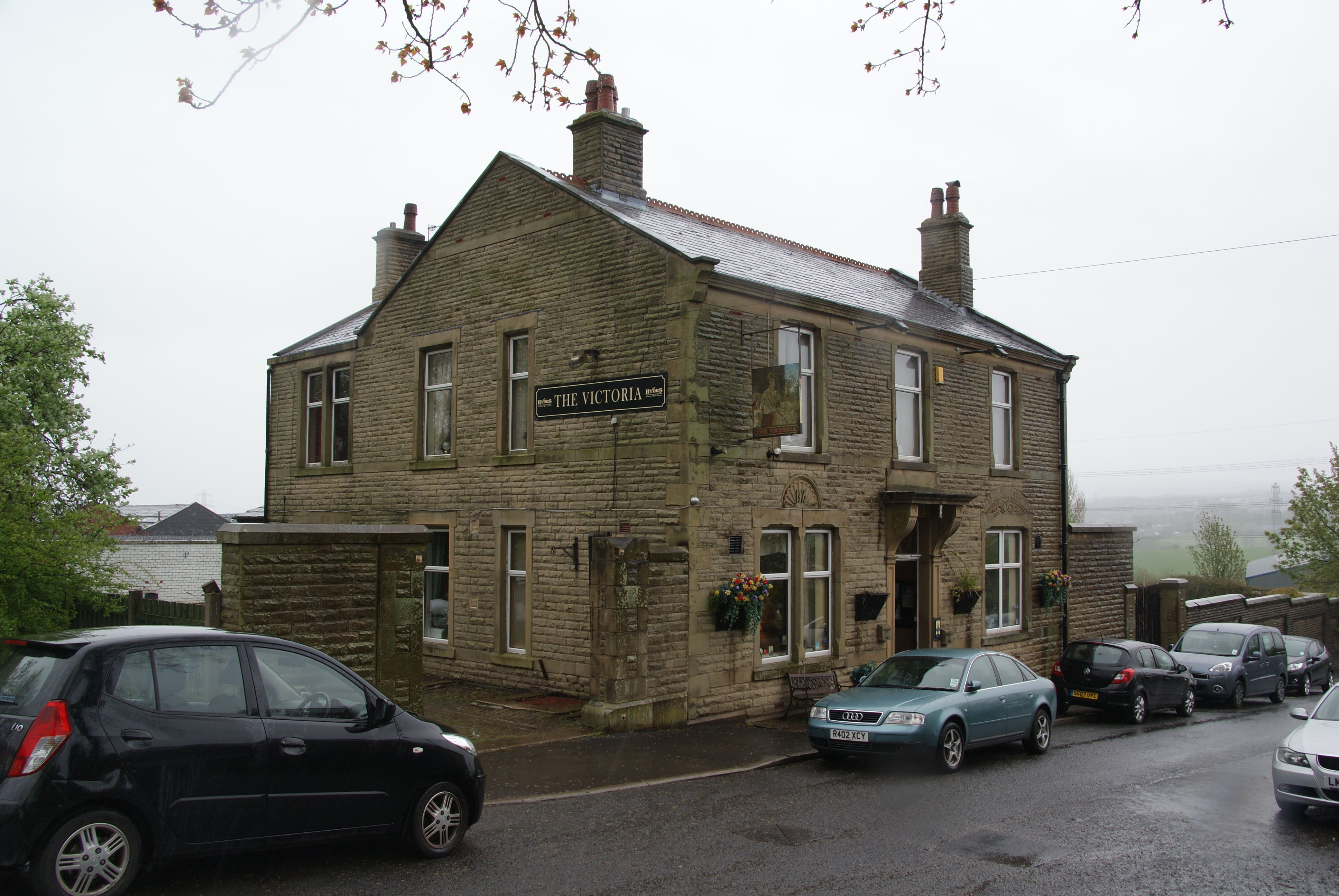 Photograph of the Victoria public house, Great Harwood, Lancashire